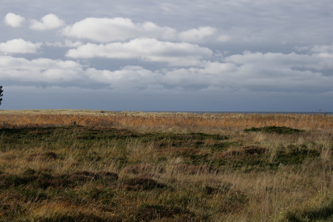 Coastal heath at Øer, Djursland, Denmark